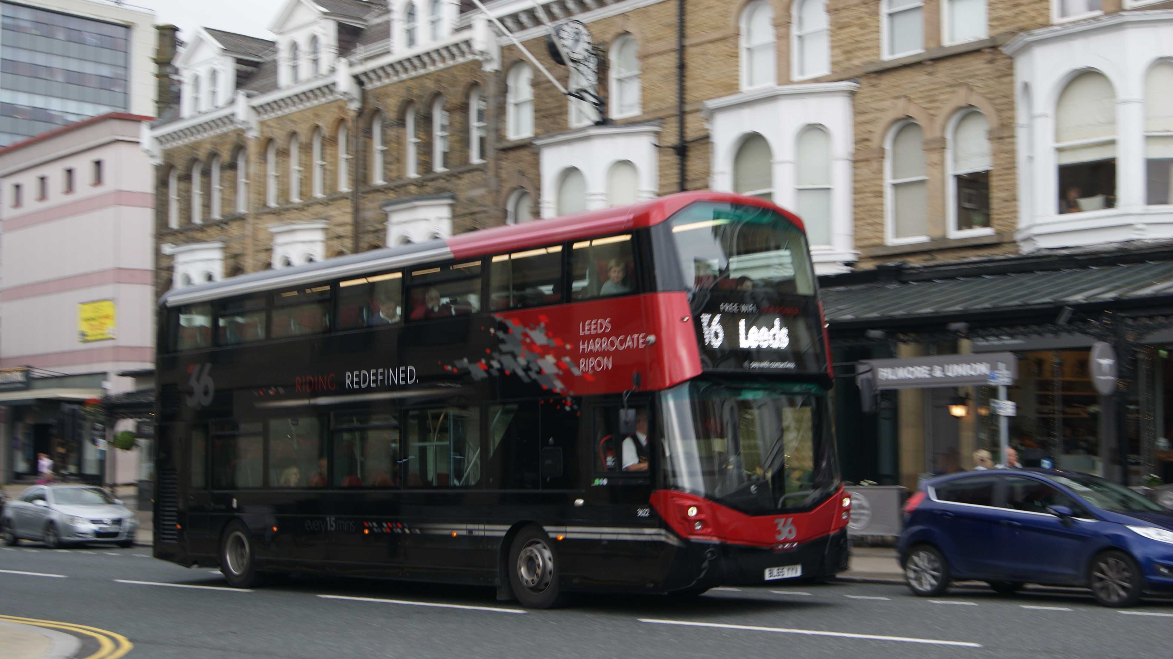 Harrogate Bus Company route 36, Station Parade, Harrogate, North Yorkshire. Taken on the afternoon of Thursday the 7th of September 2017.